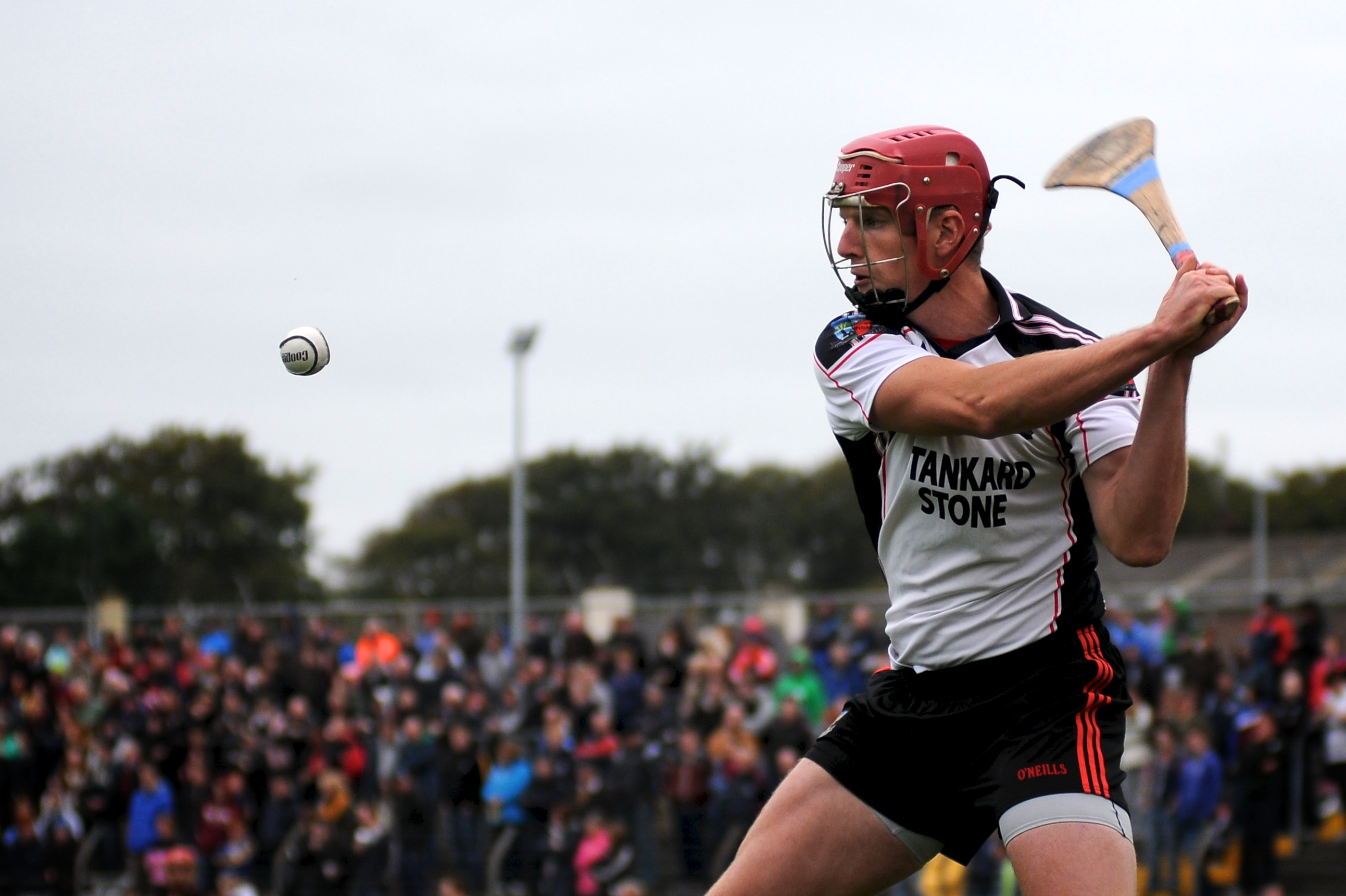 James Skehill in action for Cappataggle against James Skehill in the 2013 Galway Intermediate Hurling final in Athenry